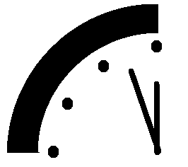 Doomsday Clock of 2015 after shifting to 11:57